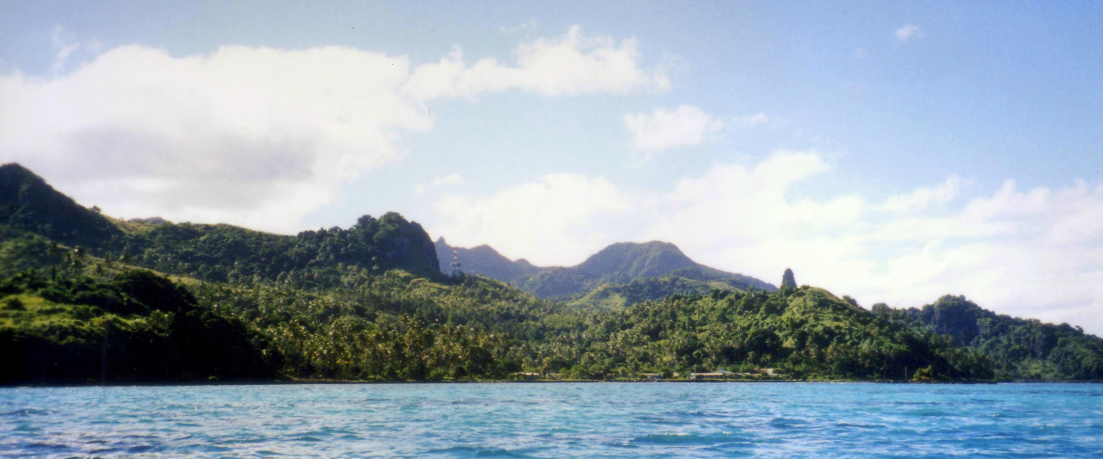 View of south side of the Fijian island of Ovalau